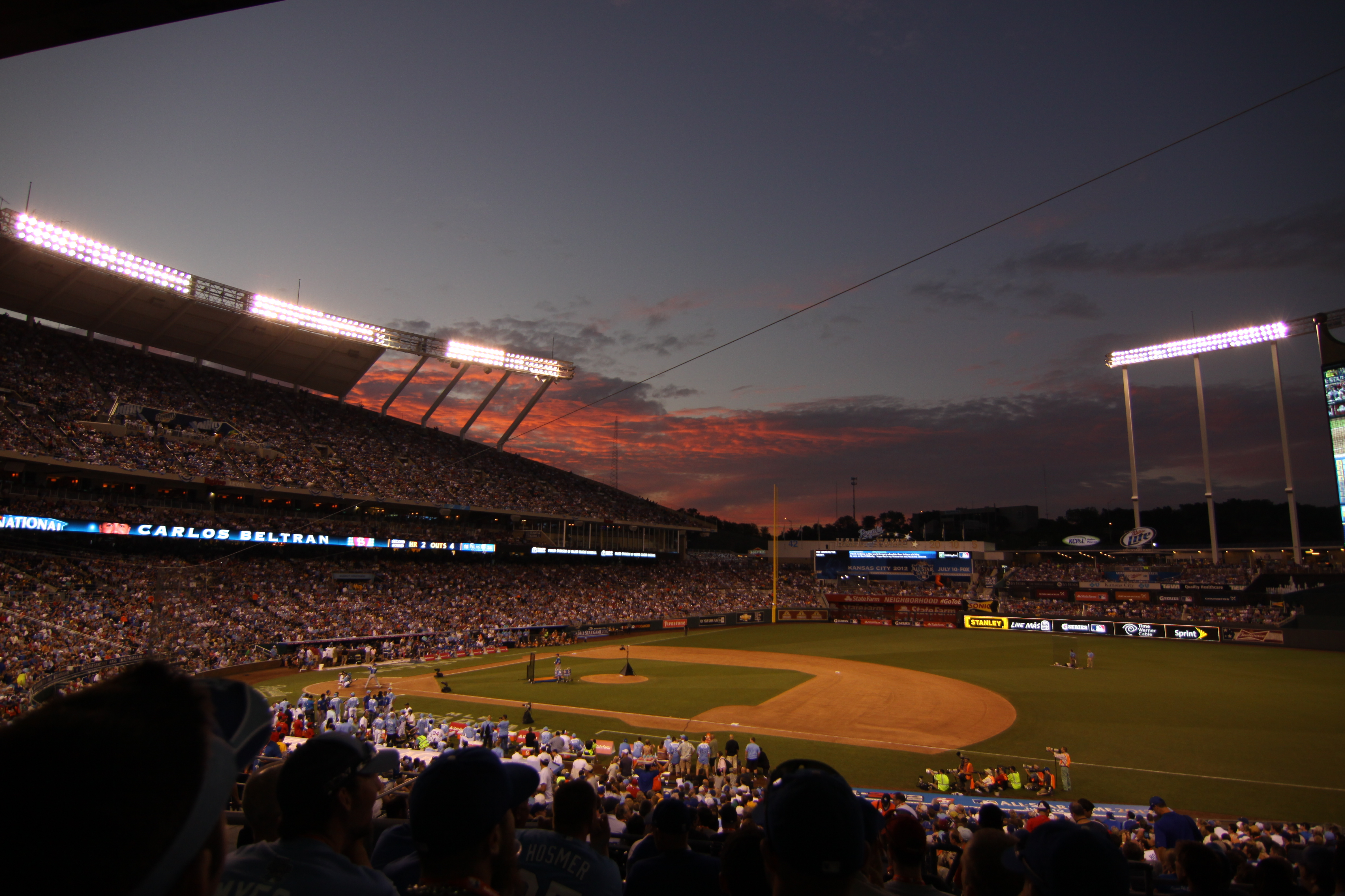 Some of baseball’s premier power hitters stepped to the plate to support State Farm and Major League Baseball’s effort to go to bat for charity, raising $615,000 during the 2012 State Farm Home Run Derby at the Kauffman Stadium in Kansas City, Missouri.